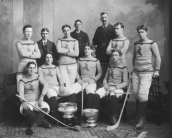 Montreal Shamrocks, 1899 Stanley Cup champions Standing (left to right): Jim H. McKenna, unknown, Frank C. Tansey, C. Foley, Barney Dunphy, Frank Wall, Arthur Farrell Sitting (left to right): C. Hoerner, Fred Scanlan, Harry Trihey, Jack P. Brannen